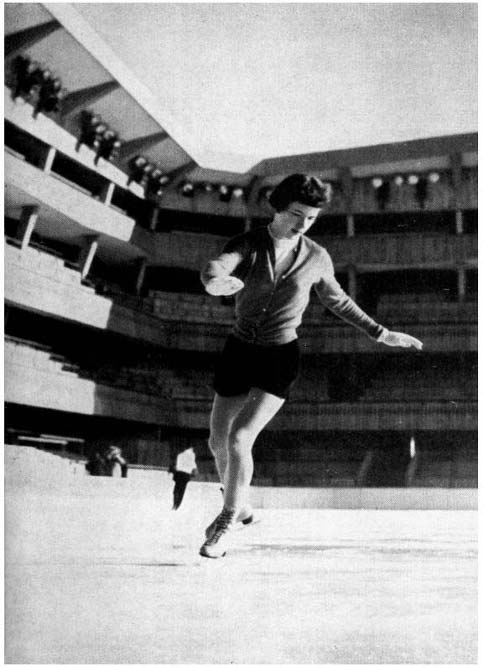 Tenley Albright skating at the 1956 Winter Olympics in Cortina d'Ampezzo, Italy.